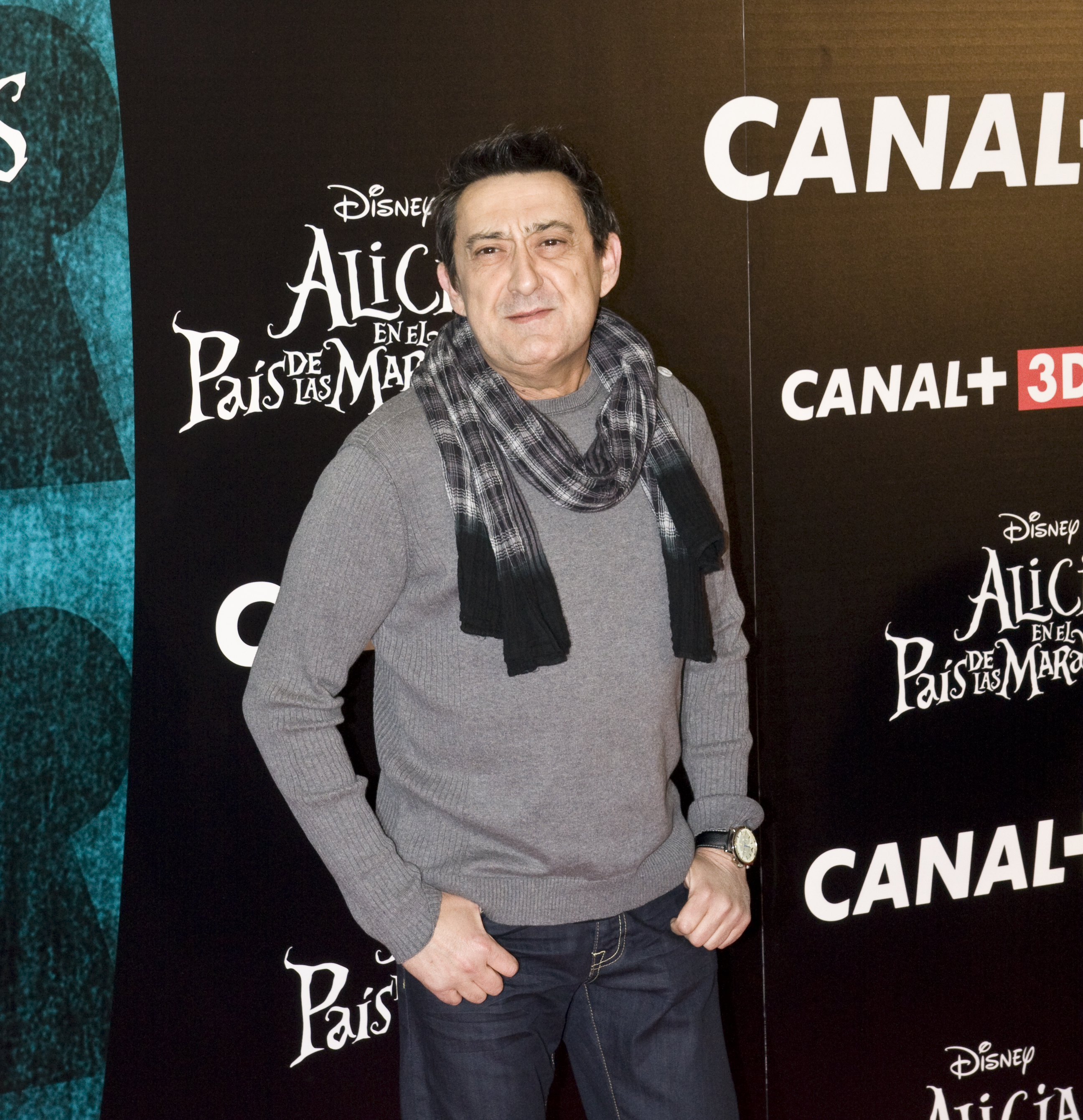 Mariano Peña Spanish actor at the photocall of Alice in Wonderland in 2010.